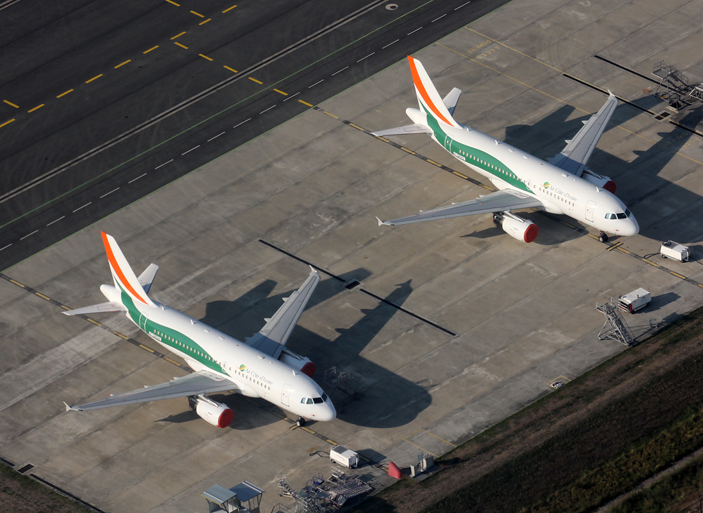 The two Airbus A319-100 (previously Air France Dedicate) of the new ivorian national company Air Côte d'Ivoire, shot in Toulouse-Blagnac airport a few days before their departure for Abidjan. F-GRXH is the one in the lower-left corner, F-GRXG in the upper-right corner.